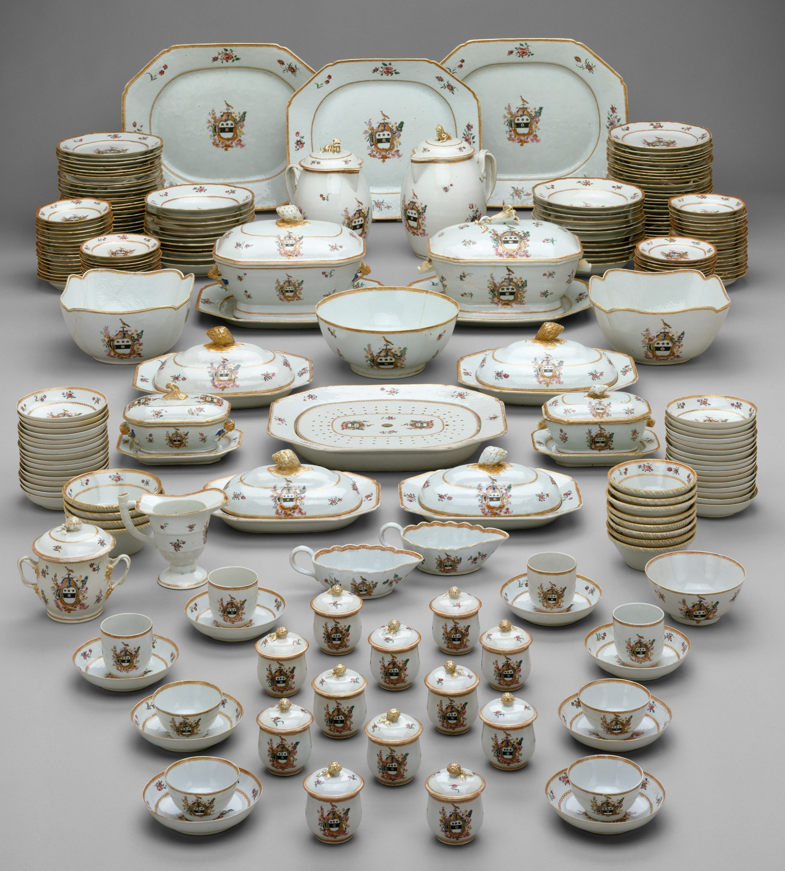 Chinese, for American market; Table service; Ceramics